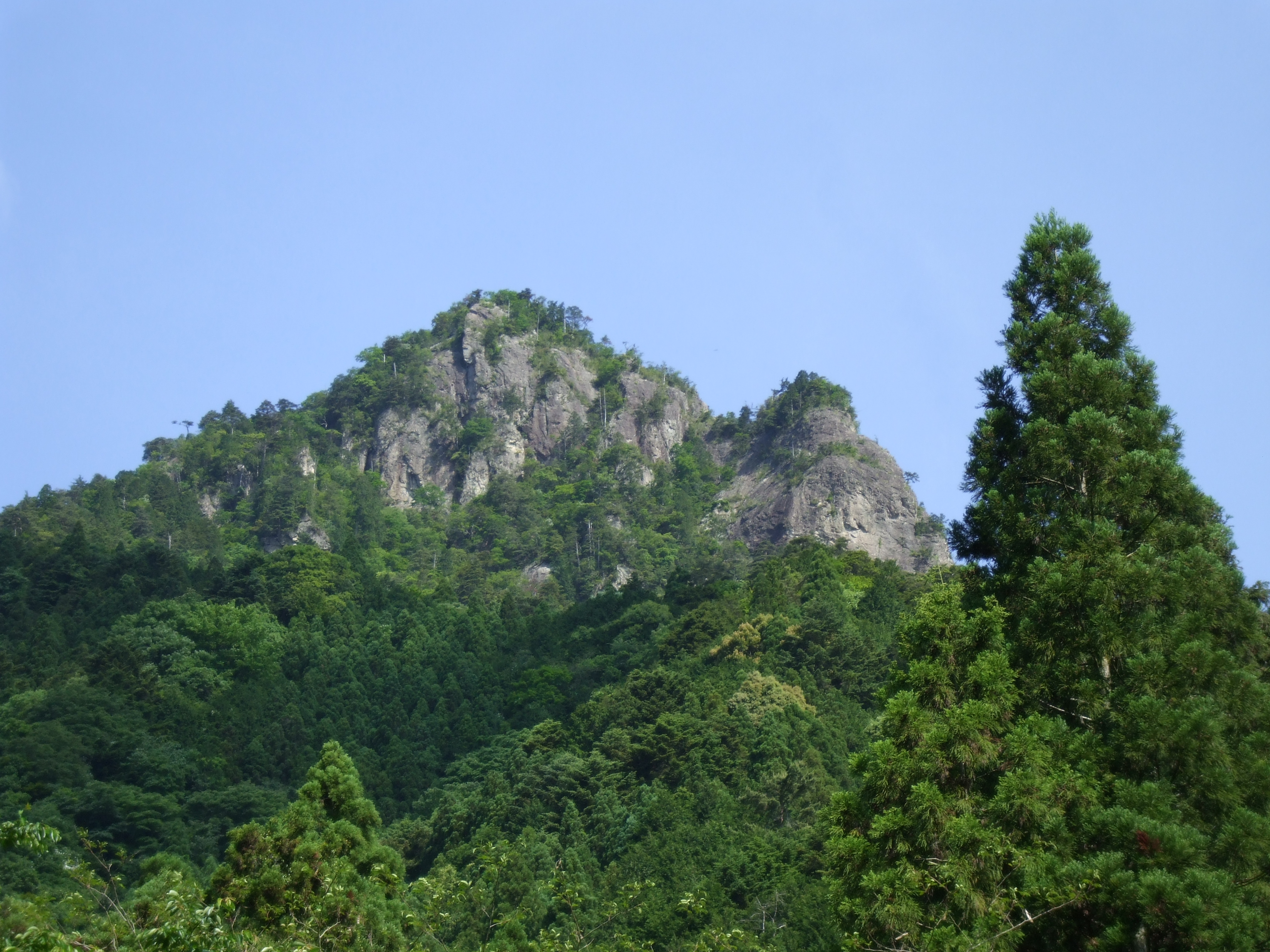 Mount Horagatake Peak, in Mount Seppiko, Hyogo, Japan.